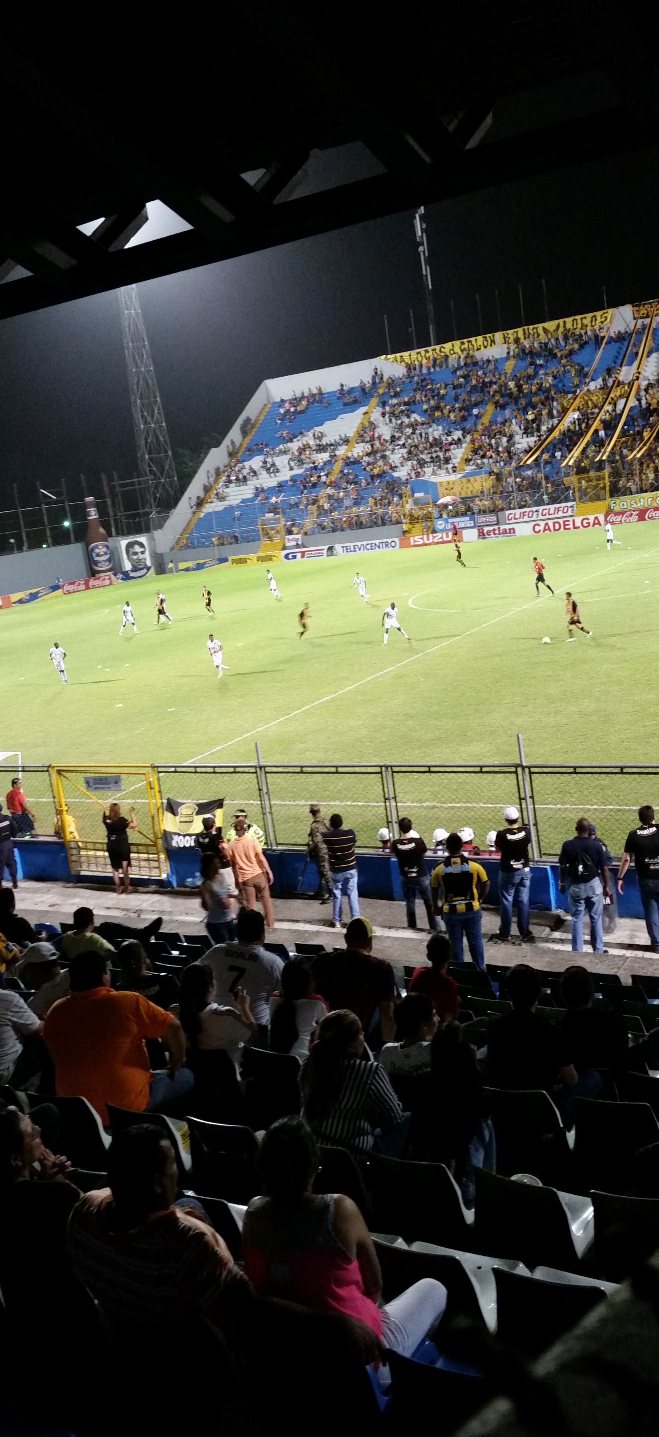 Francisco Morazan Stadium at San Pedro Sula. Game between Real Espana and Olimpia Football Club